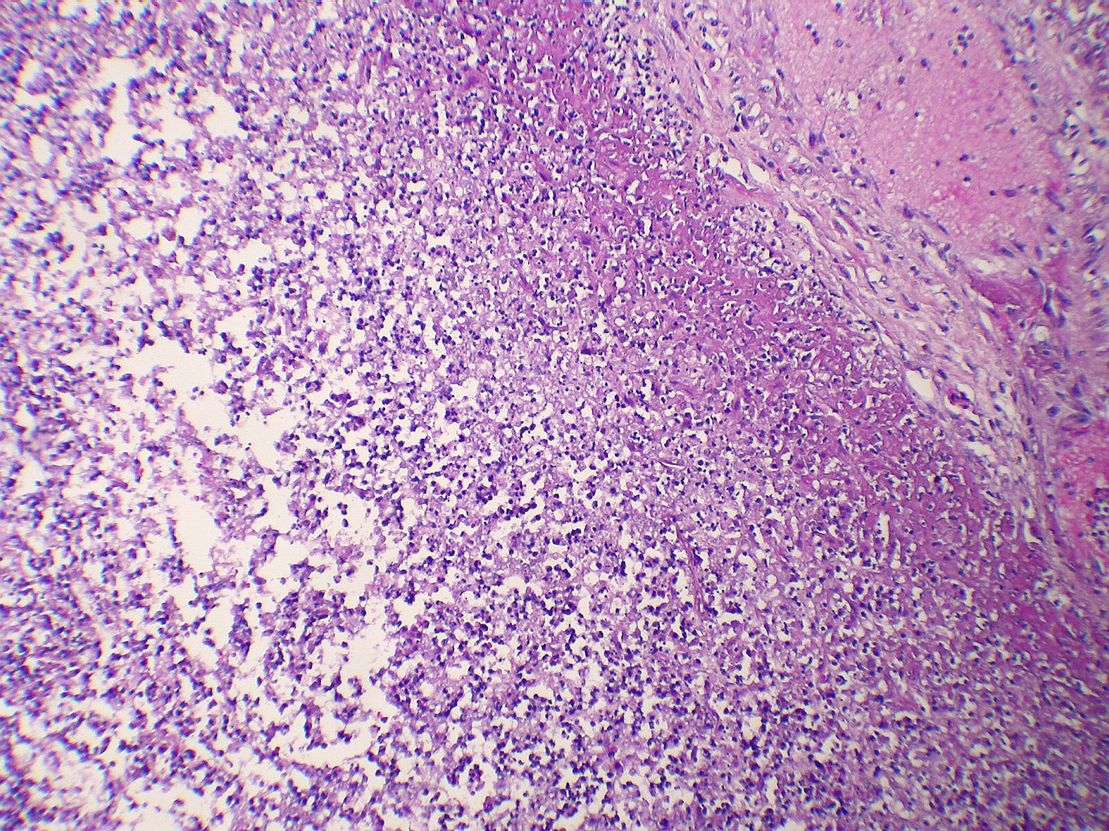 Suppuration with central liquefaction surrounded by a thin fibrous capsule.